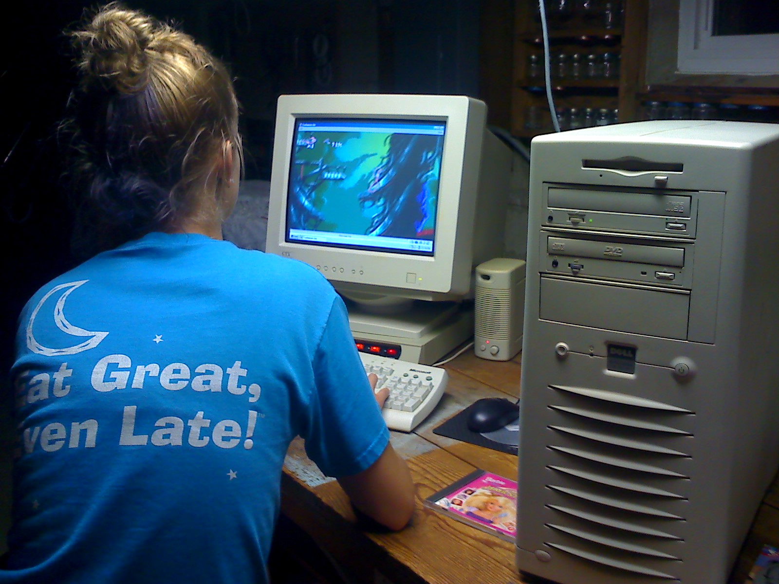 Dell Precision 620MT workstation, with dual Pentium III 1.0GHz CPU's, 128MB RD800 RAM, 18GB SCSI 160 HDD, and Windows 98. Photo subject is named Jamie.